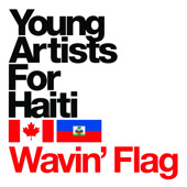 This is the cover art for the single Wavin' Flag by the artist Young Artists for Haiti.